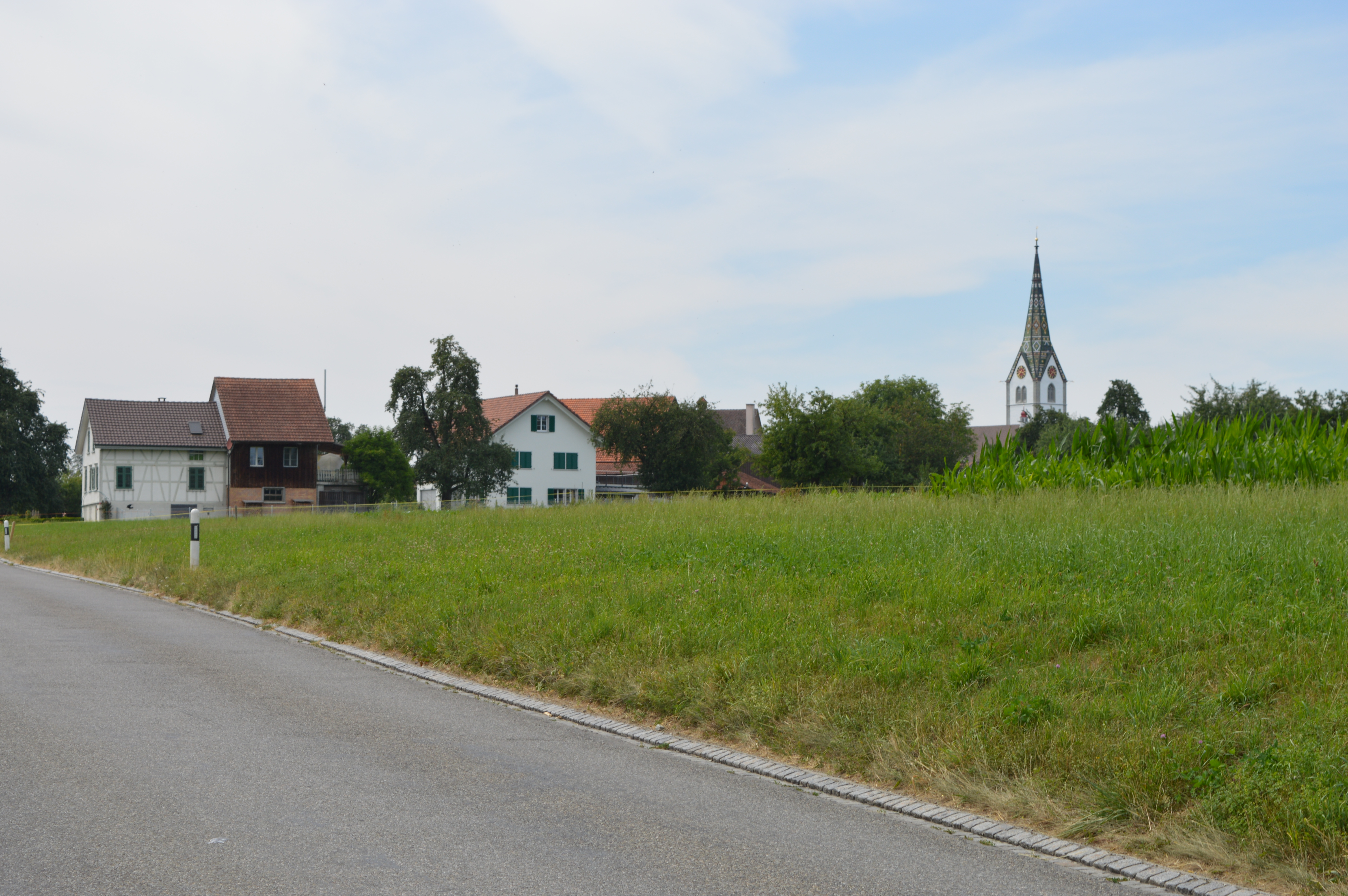 Sommeri, canton of Thurgovia, Switzerland